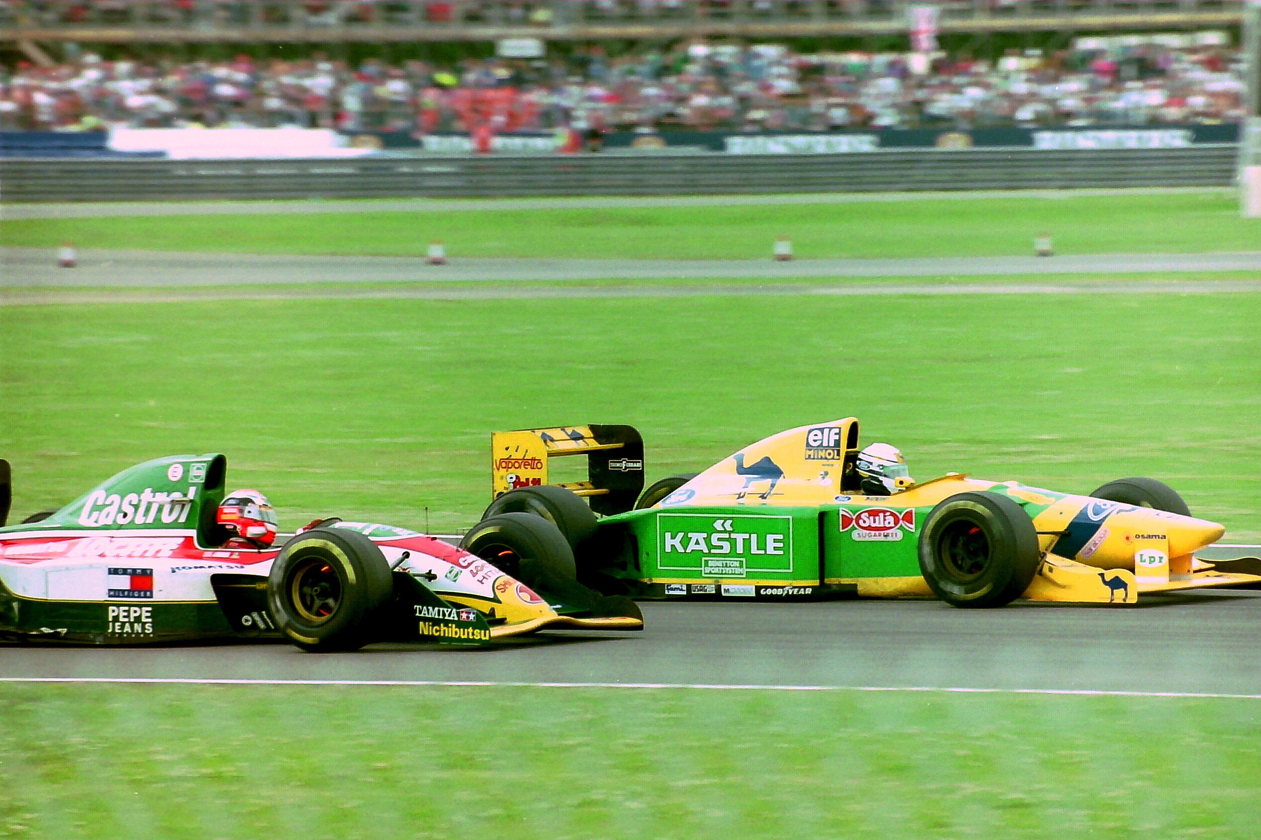 Riccardo Patreses - Benetton B193B outbrakes Johnny Herbert - Lotus 107 at the 1993 British Grand Prix